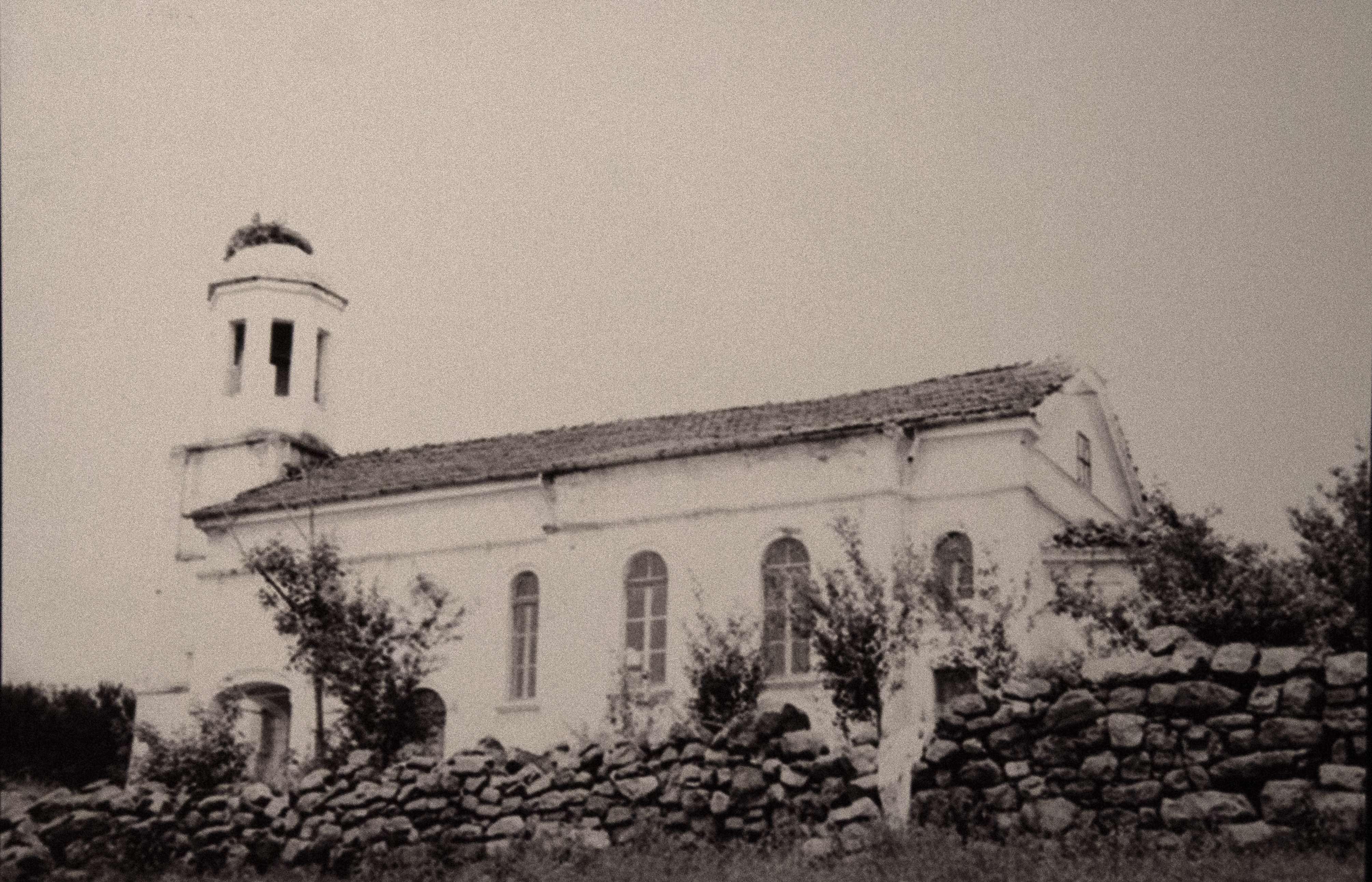 This photo was uploaded during the creation of the first wiktown in Bulgaria WikiBotevgrad.